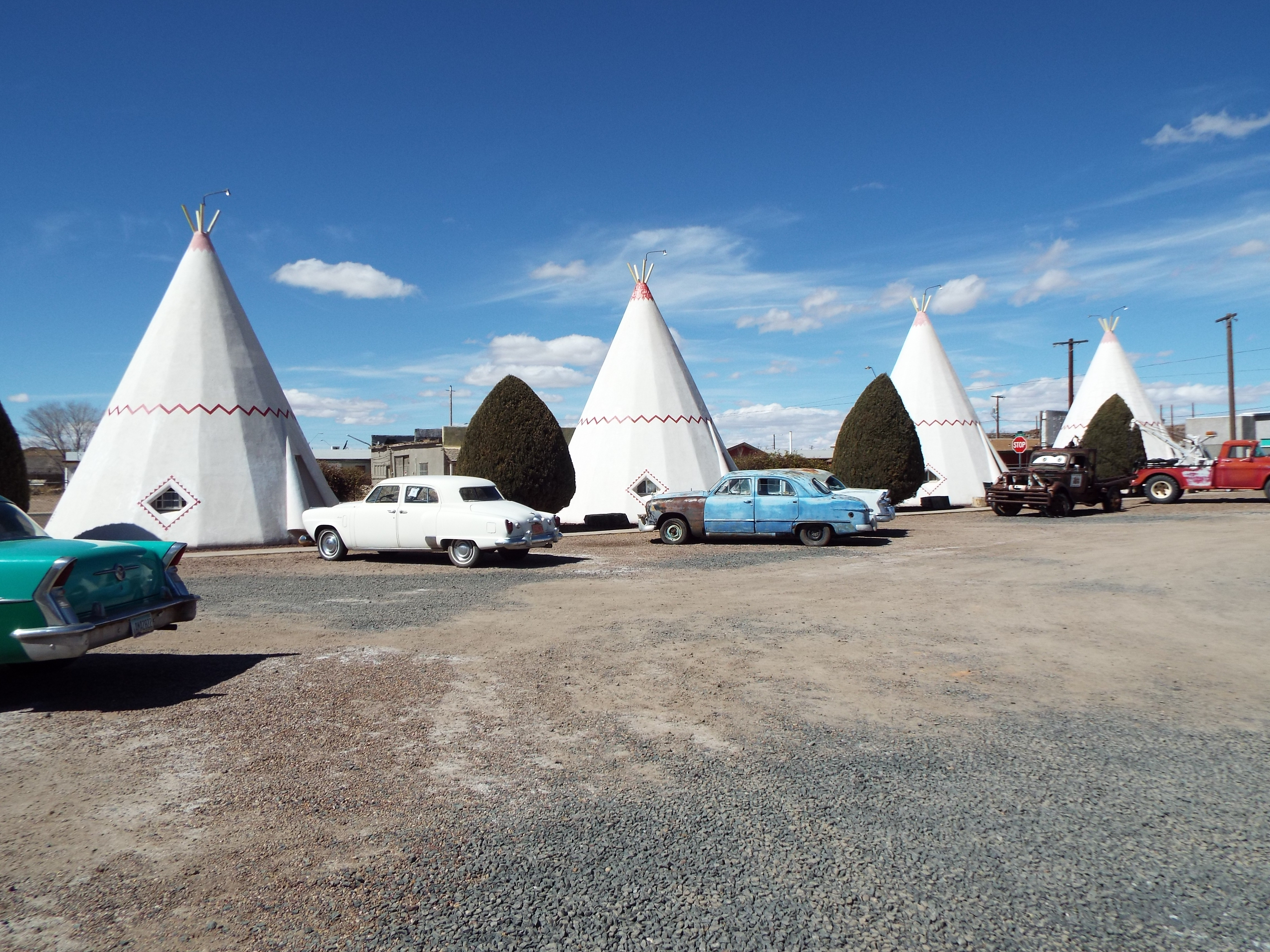 Wigwam Motel 811 West Hopi Dr.Holbrook, AZ. Listed in the National Register of Historic Places built during the 1930s and 1940s.